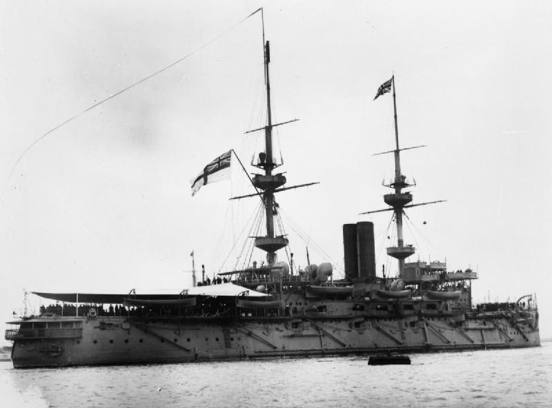 Majestic Class Battleships- Hms Caeser HMS CAESER under way, 1905.